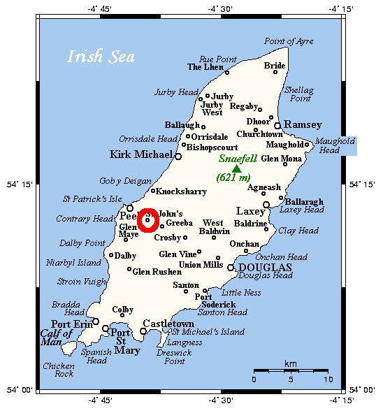 Isle of Man map